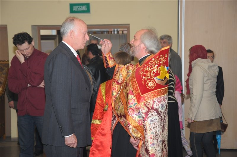 Karl Emich of Leiningen is being converted to Russian Orthodox Christian faith in Nuremberg on June 1, 2013